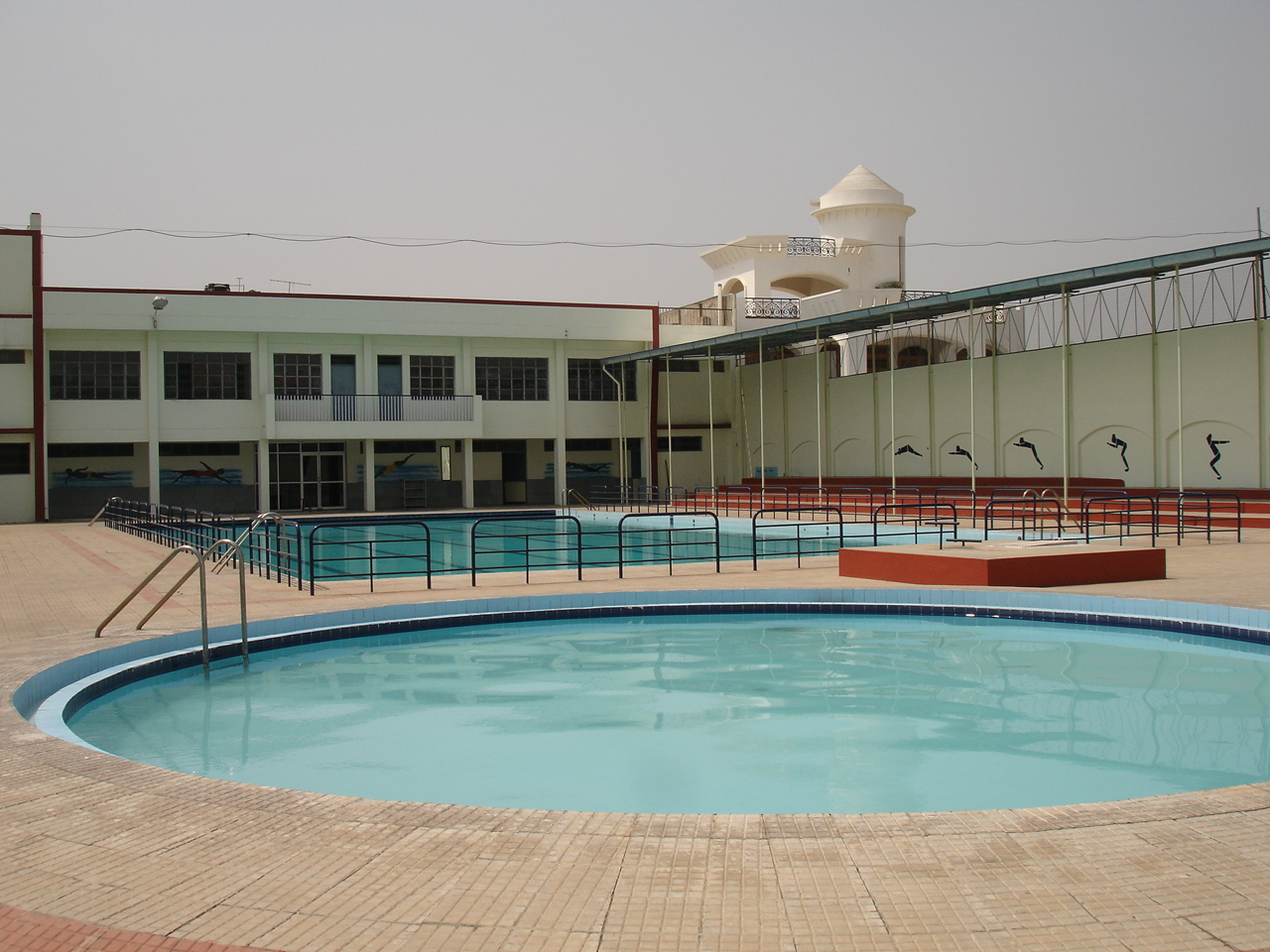 Taken by self